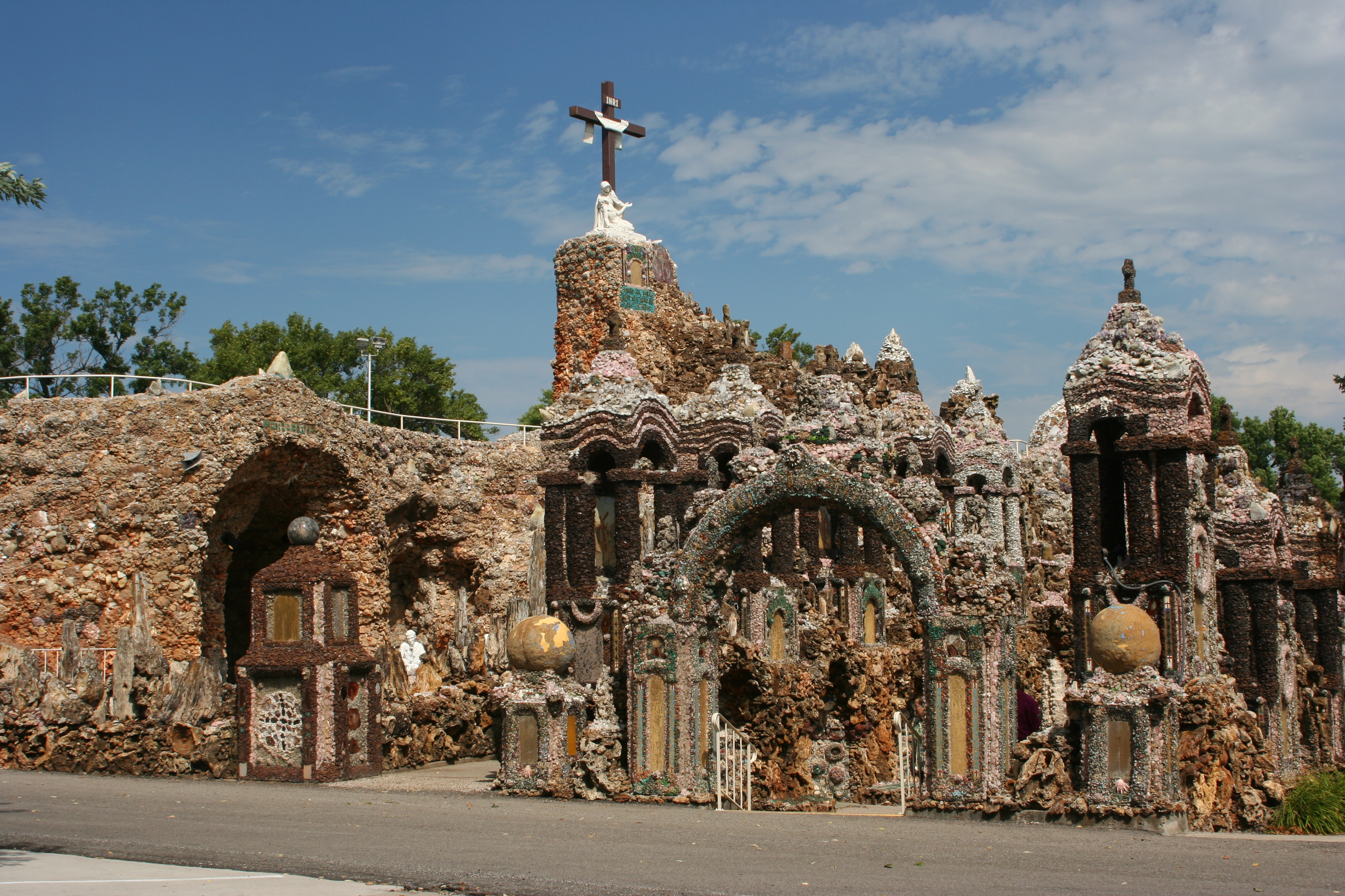 The South side of the Grotto of the Redemption in West Bend, Iowa